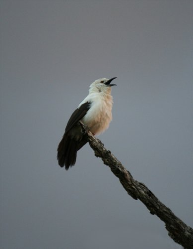 Southern Pied Babbler (Turdodies bicolor) being a sentinel for their group on an exposed branch.